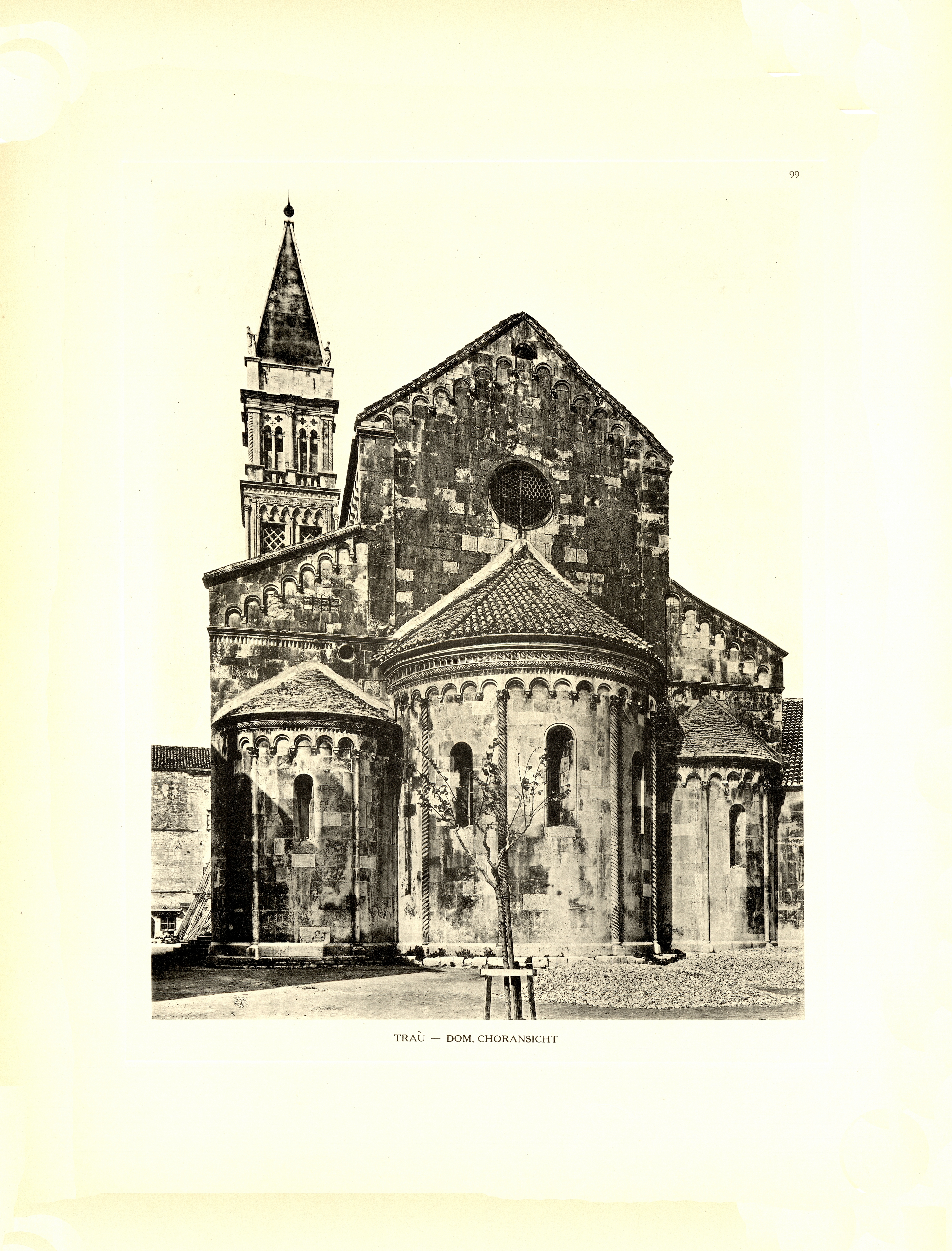 Denkmäler der Kunst in Dalmatien, Herausgegeben von Georg Kowalczyk, mit einer Einleitung von Cornelius Gurlitt. 132 Lichtdrucktafeln nach Naturaufnahmen des Herausgebers Georg Kowalczyk sowie nach Kupfern aus dem Werke von Robert Adam: Ruins of the Palace of the Emperor Diocletian at Spalat(r)o, 1764 Wien, 1910, Verlag von Franz Malota Scanprojekt Bundesdenkmalamt Österreich This scan or this PDF-file was created within the Austrian Wikipedia-project Denkmalpflege Österreich (German only) supported by Wikimedia Germany and Wikimedia Austria as part of the Wikipedia community-project to collect public domain documents from the library of the Heritage Monuments Board of Austria. This document describes or depicts an object which is located in Croatia today. Texts are written in German language. Send requests for uncompressed scans to Hubertl. This work is in the public domain in the United States, and those countries with a copyright term of life of the author plus 100 years or less. This file has been identified as being free of known restrictions under copyright law, including all related and neighboring rights.